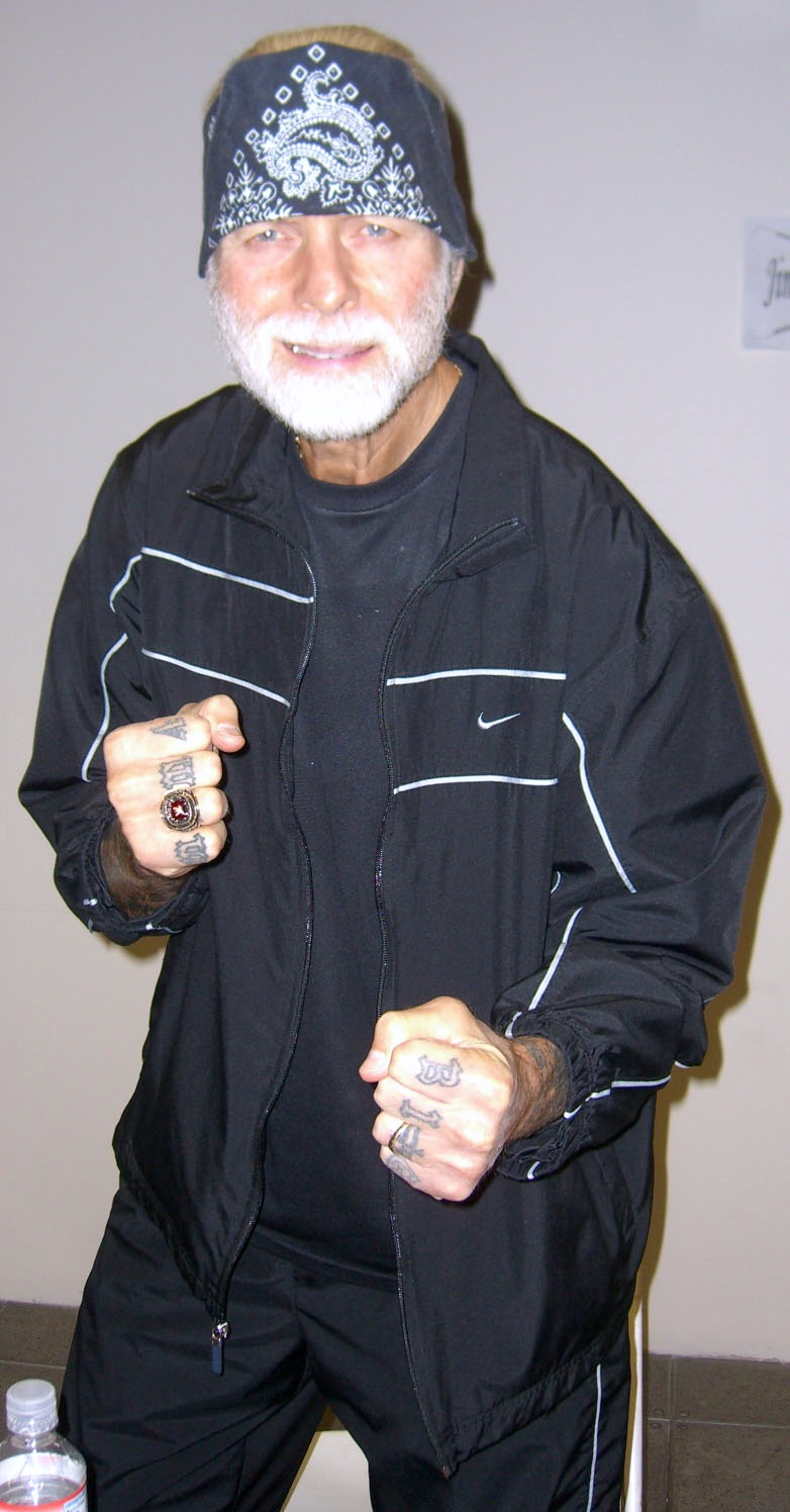 Wrestler Jimmy Valiant on November 14, 2008 at the Big Apple Convention in Manhattan. This photo was created by Luigi Novi. It is not in the public domain, and use of this file outside of the licensing terms is a copyright violation.